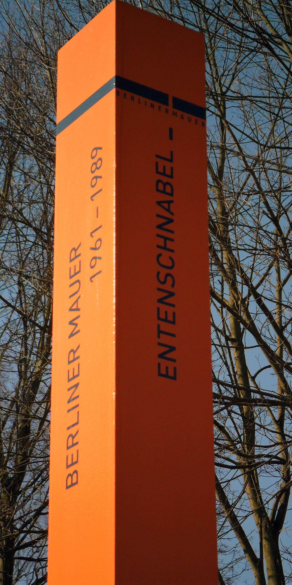 The Entenschnabel, distinctive course of the former berlin wall in Glienicke, north of Berlin.